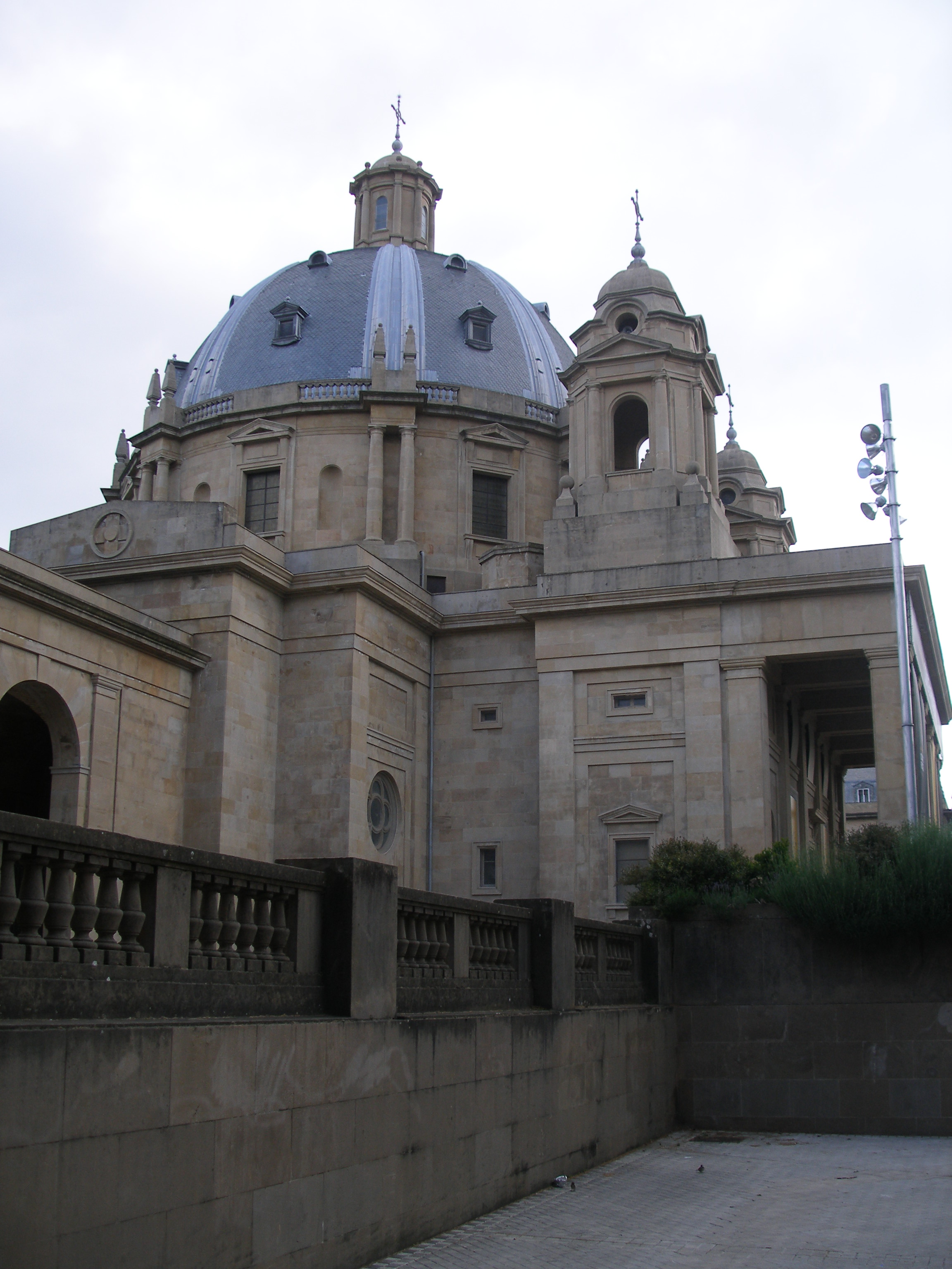 Side view of the Monument to the fallen (Pamplona)